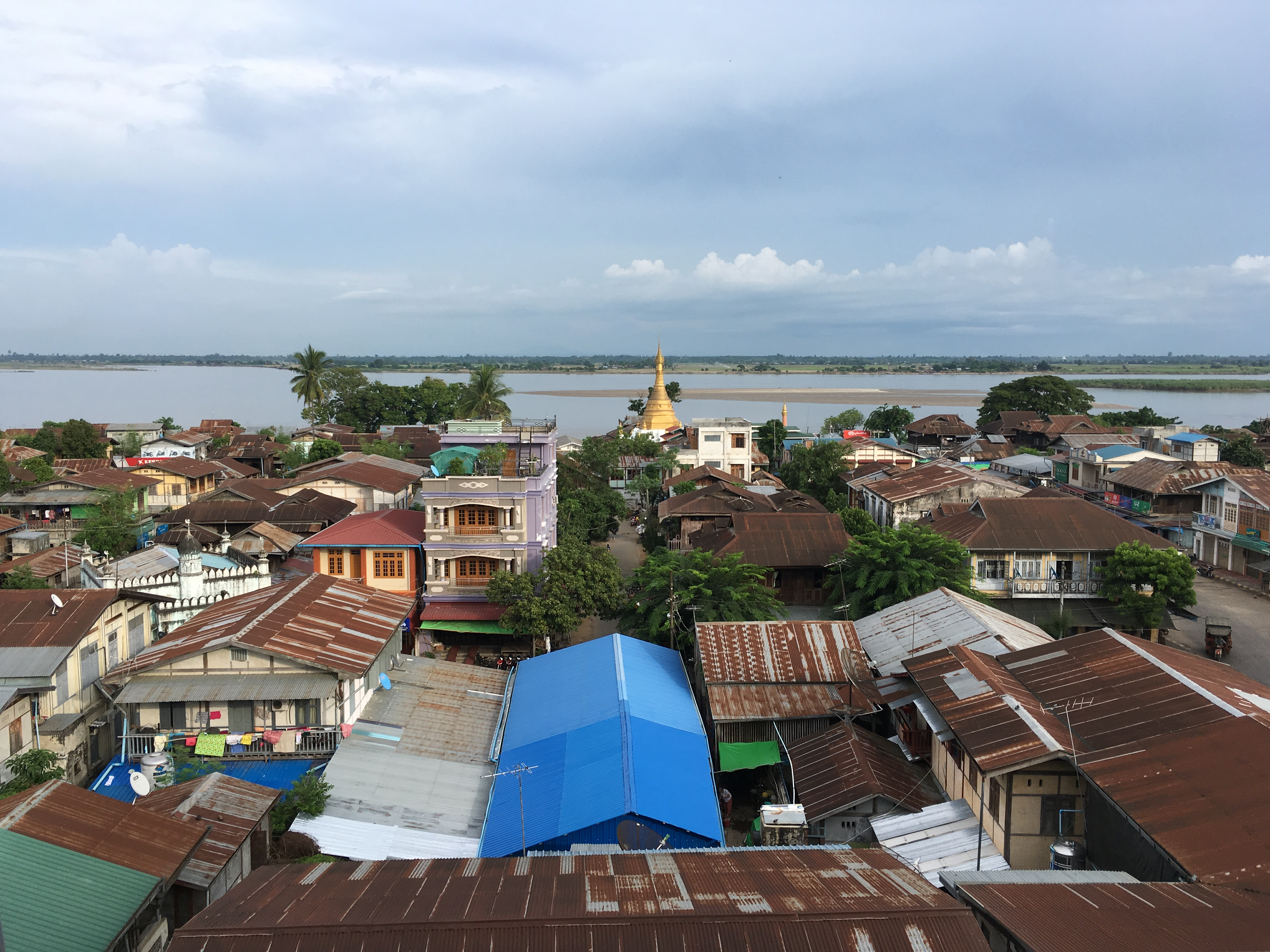 Katha 2016